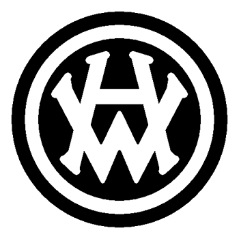 Old logo of the Harland & Wolff ltd.